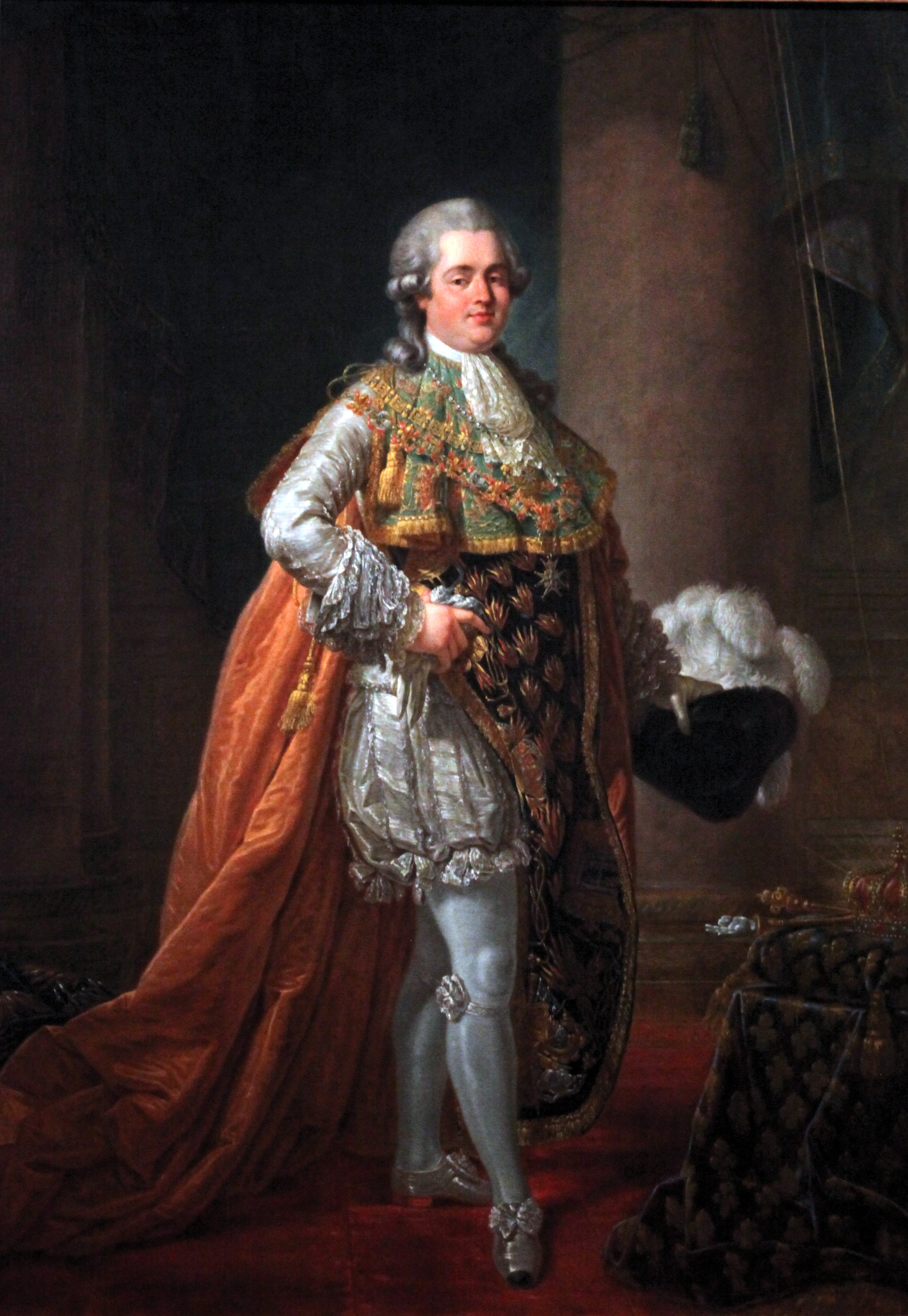 Portrait of Louis Stanislas Xavier, comte de Provence